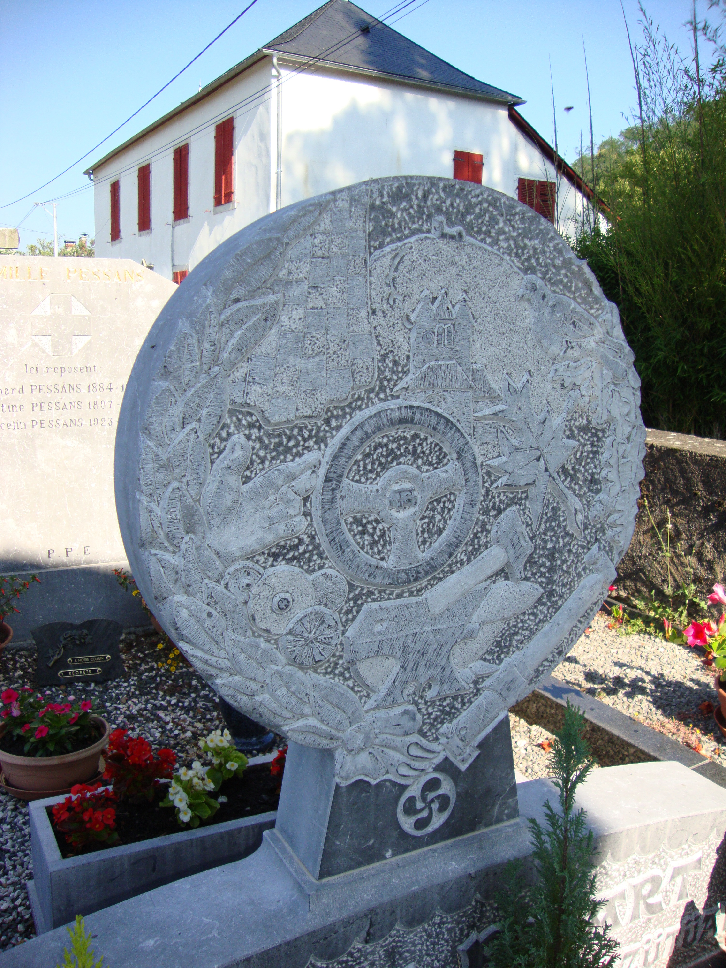 Sauguis (Sauguis-Saint-Étienne, Pyr-Atl, Fr) basque stele